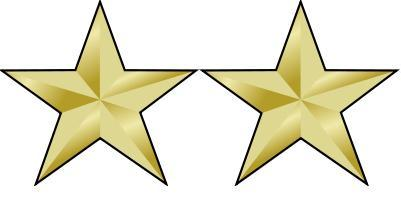 LASD Rank